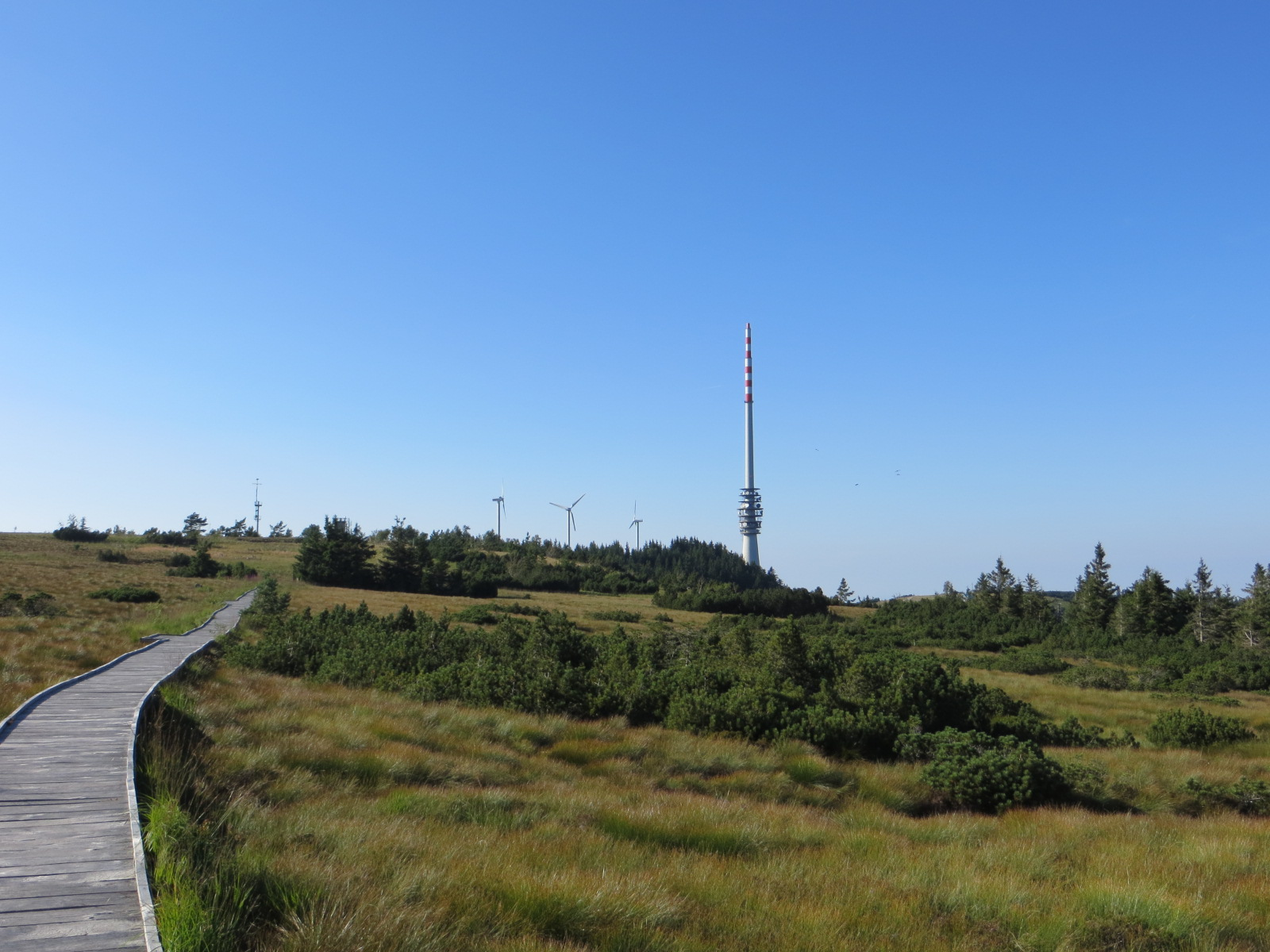 Tower and moor on the Hornisgrinde